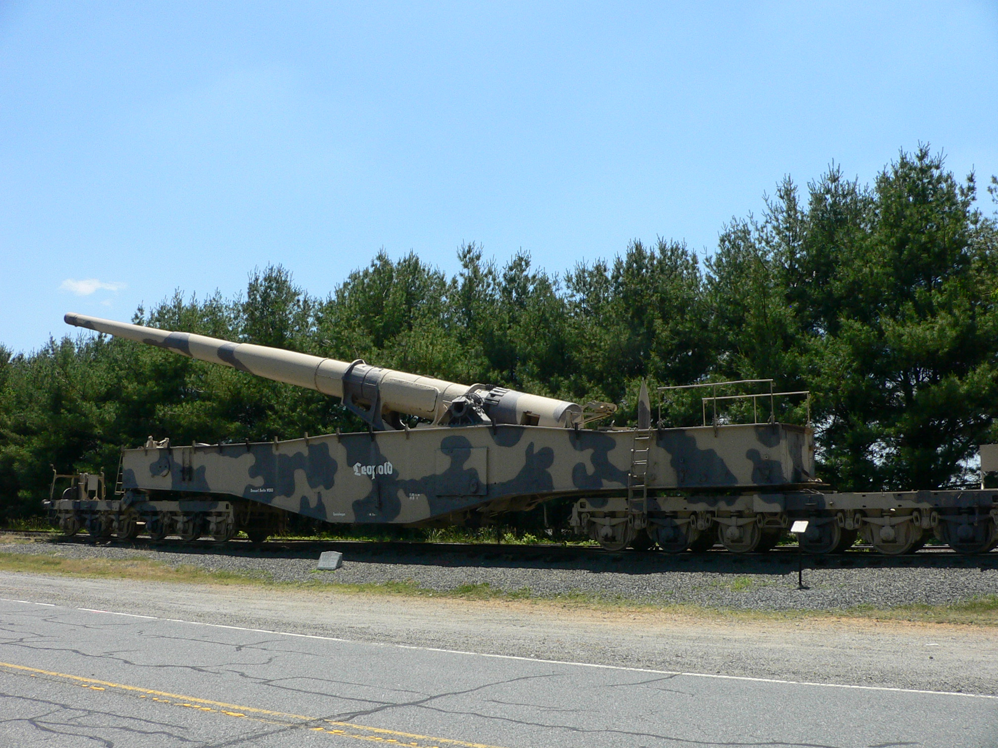 "Leopold" railway gun. Also known as "Anzio Annie". At U.S. Army Ordnance Museum (Aberdeen Proving Ground, MD)